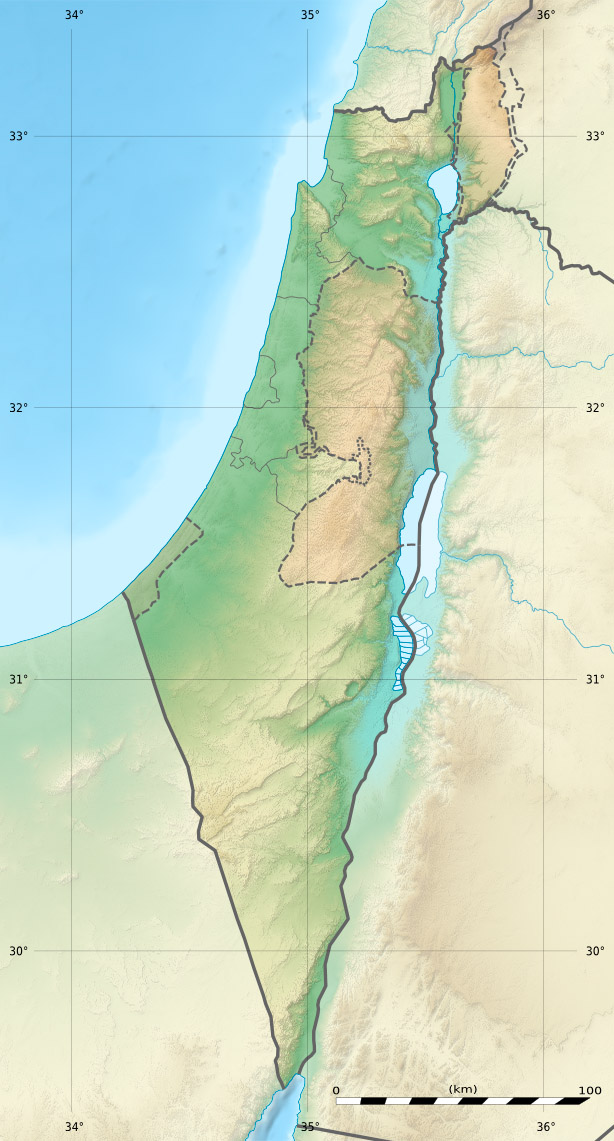 Location map of Israel. De facto situation.